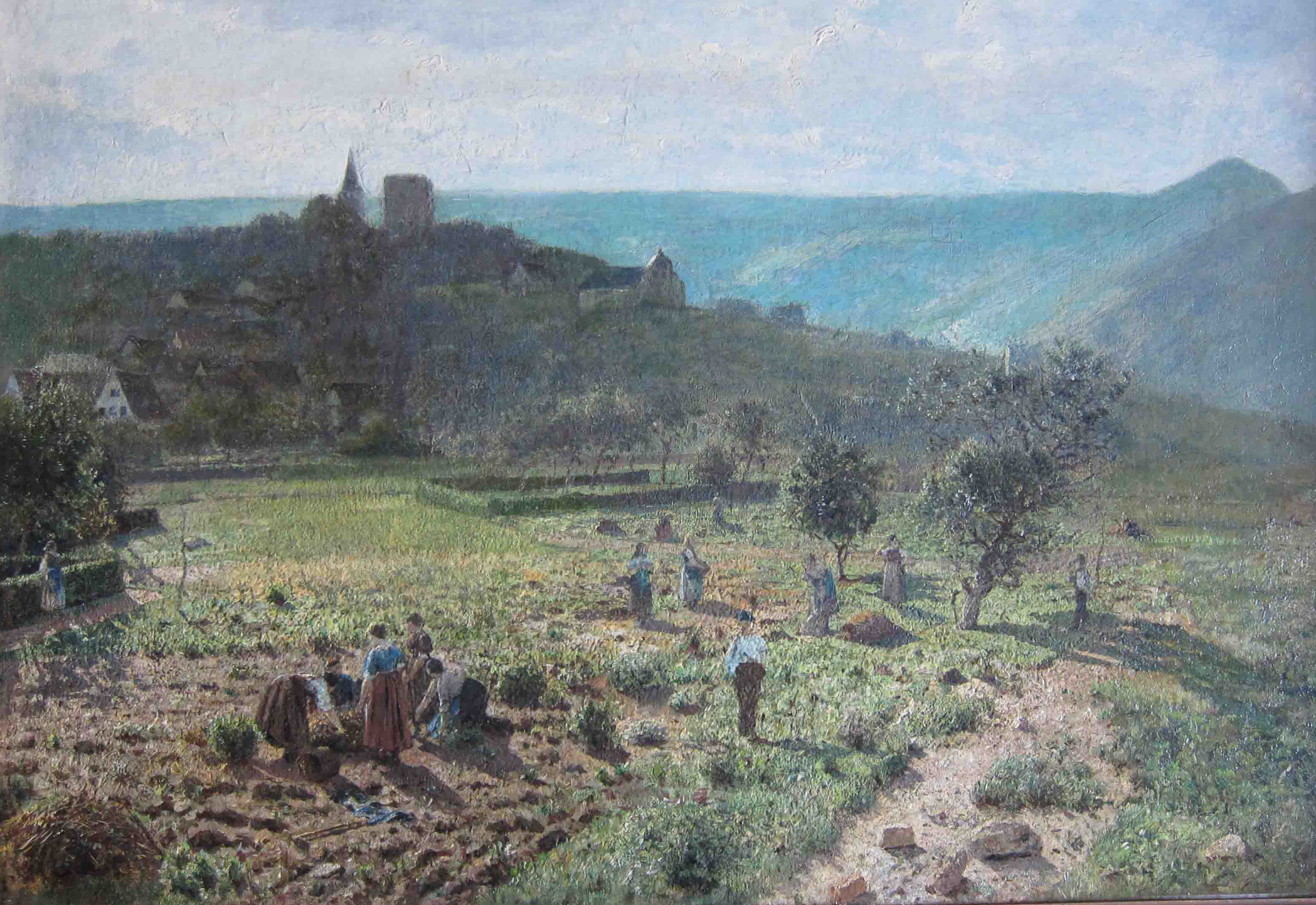 Potato harvest (family-owned painting)